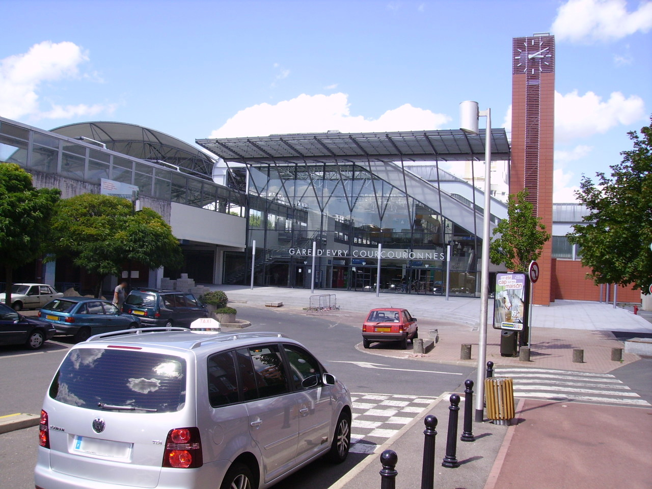 Évry - Courcouronnes train (RER) station, Évry, France